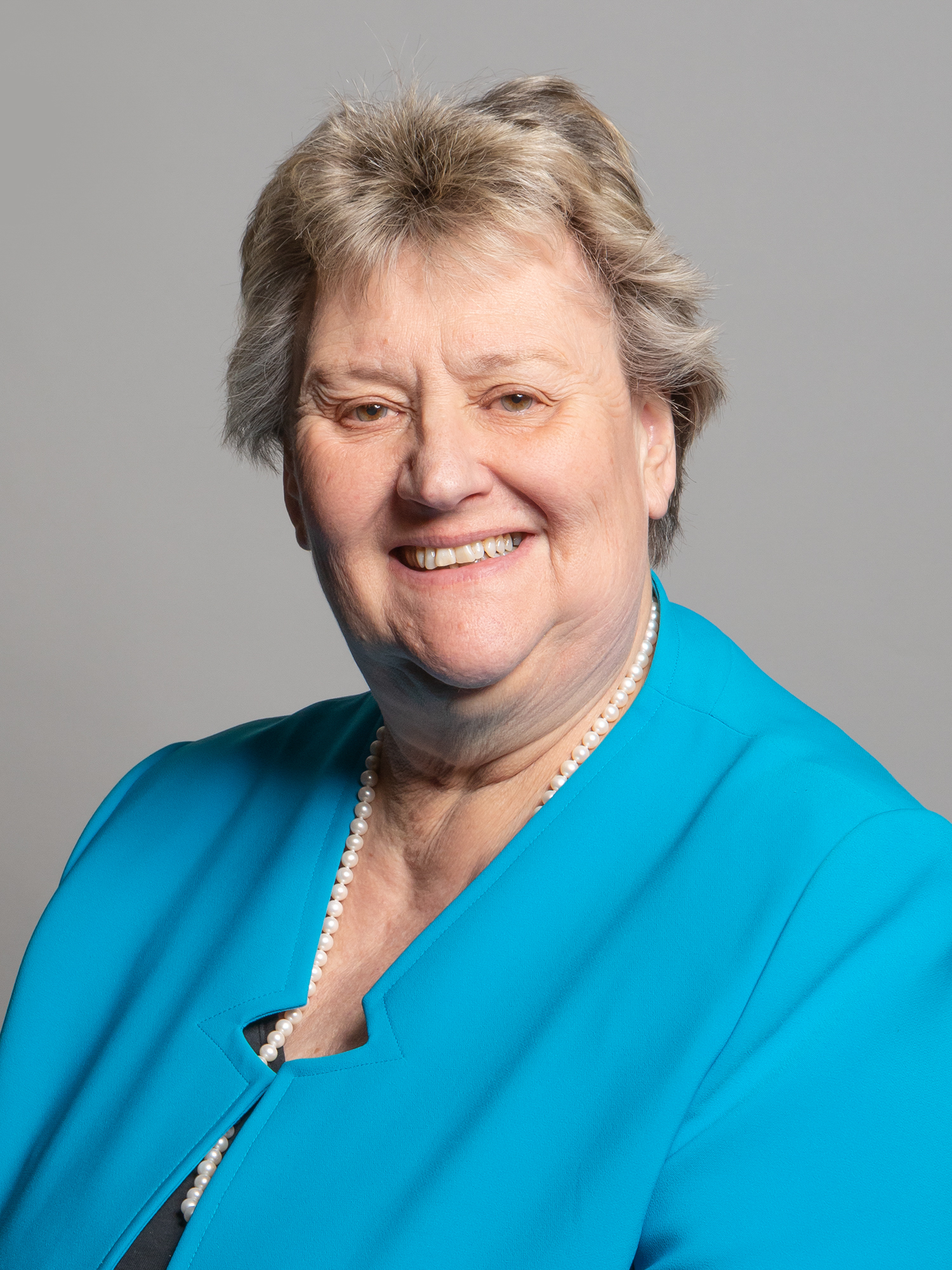 Official portrait of Mrs Heather Wheeler MP 3×4 portrait of Mrs Heather Wheeler